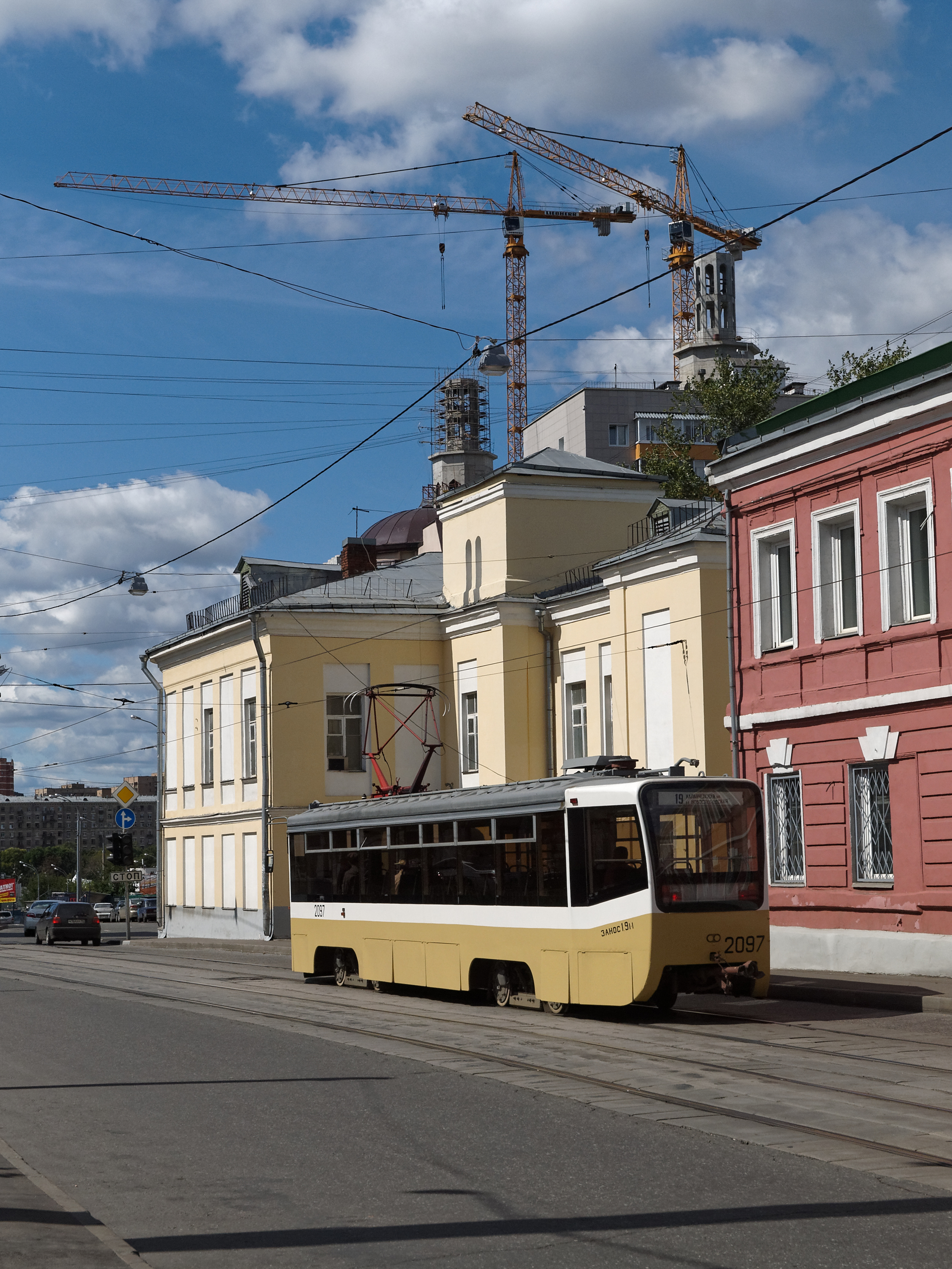 Durova Street, Moscow. Background: Minarets of Moscow Cathedral Mosque under construction